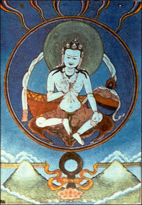 Garab Dorje or Prehebajra, Buddhist scholar